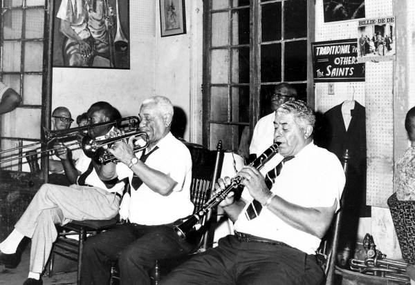 Preservation Hall Jazz Band playing a variety of music at Preservation Hall : New Orleans, Louisiana. Visible are Jim Robinson, trombone; Joseph Delacroix "De De" Pierce, trumpet; Willie Humphrey, clarinet.